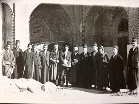 Holy cities, Politic of Karbala, Iraq